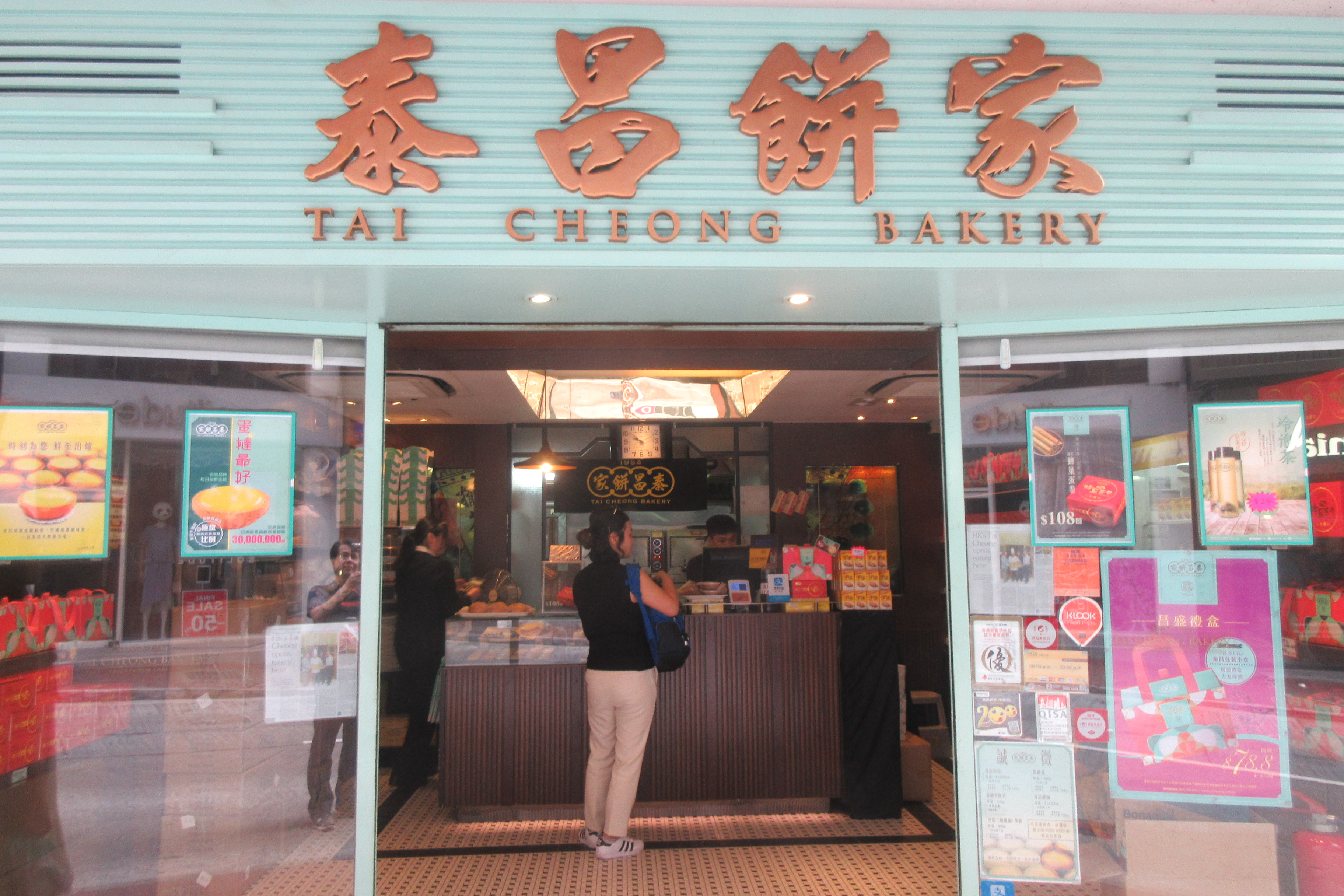 HK Central 擺花街 Lyndhurst Terrace shop April 2019